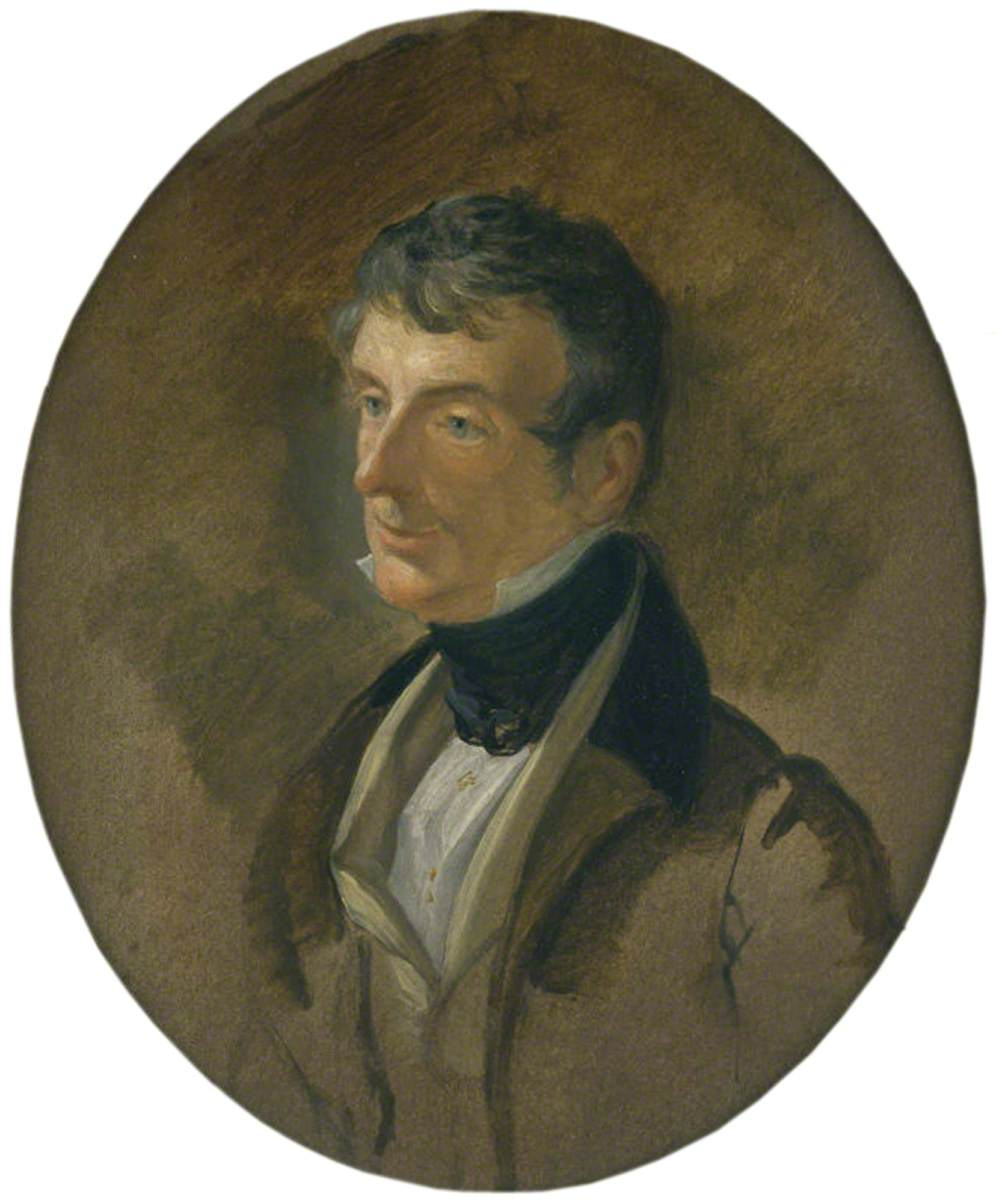 Portrait of William John Bankes (1786–1855), English politician, explorer and Egyptologist.